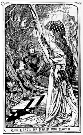 H. J. Ford's illustration for The Book of Romance by Andrew Lang.